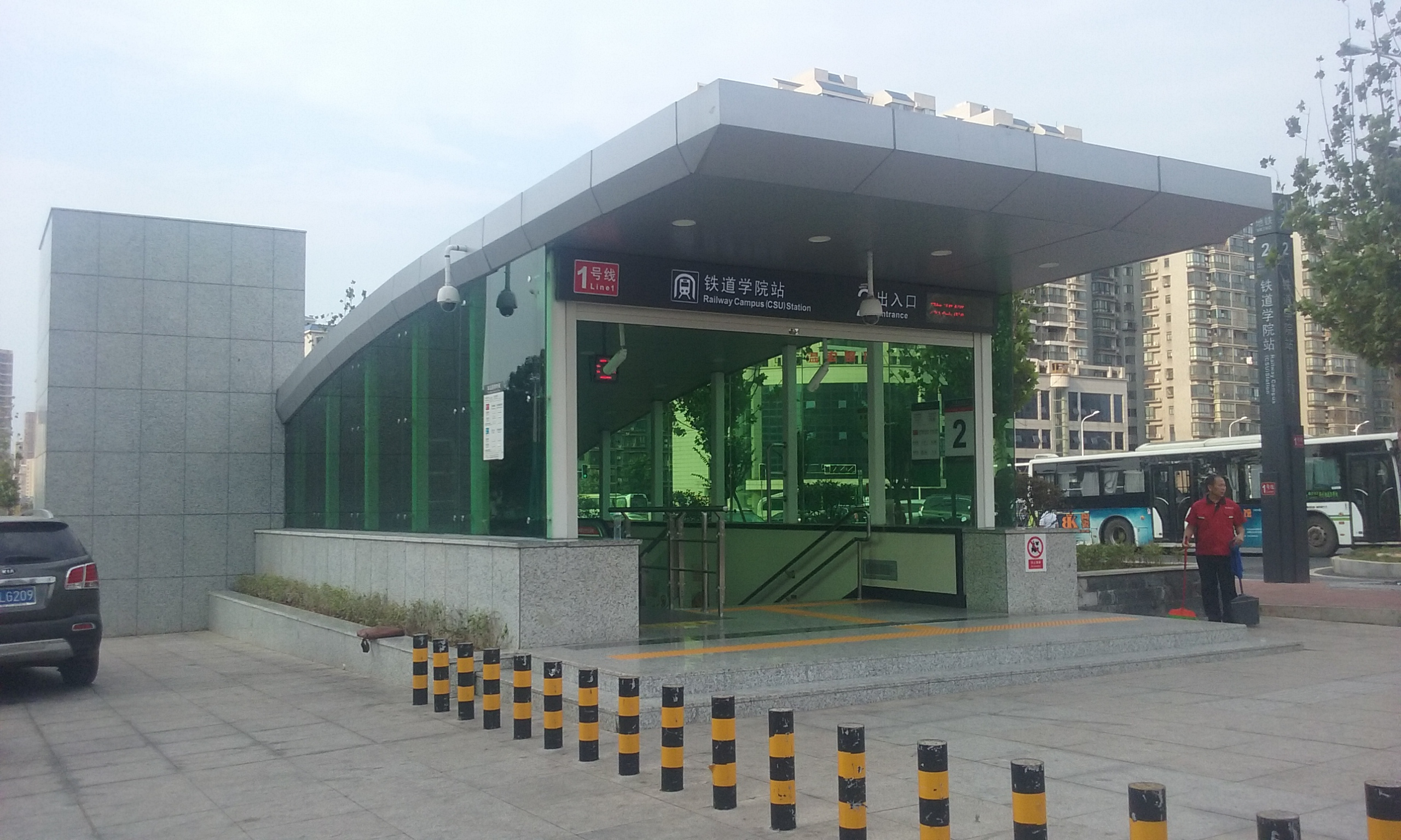 Entrance No.2 of Railway Campus(CSU) Station